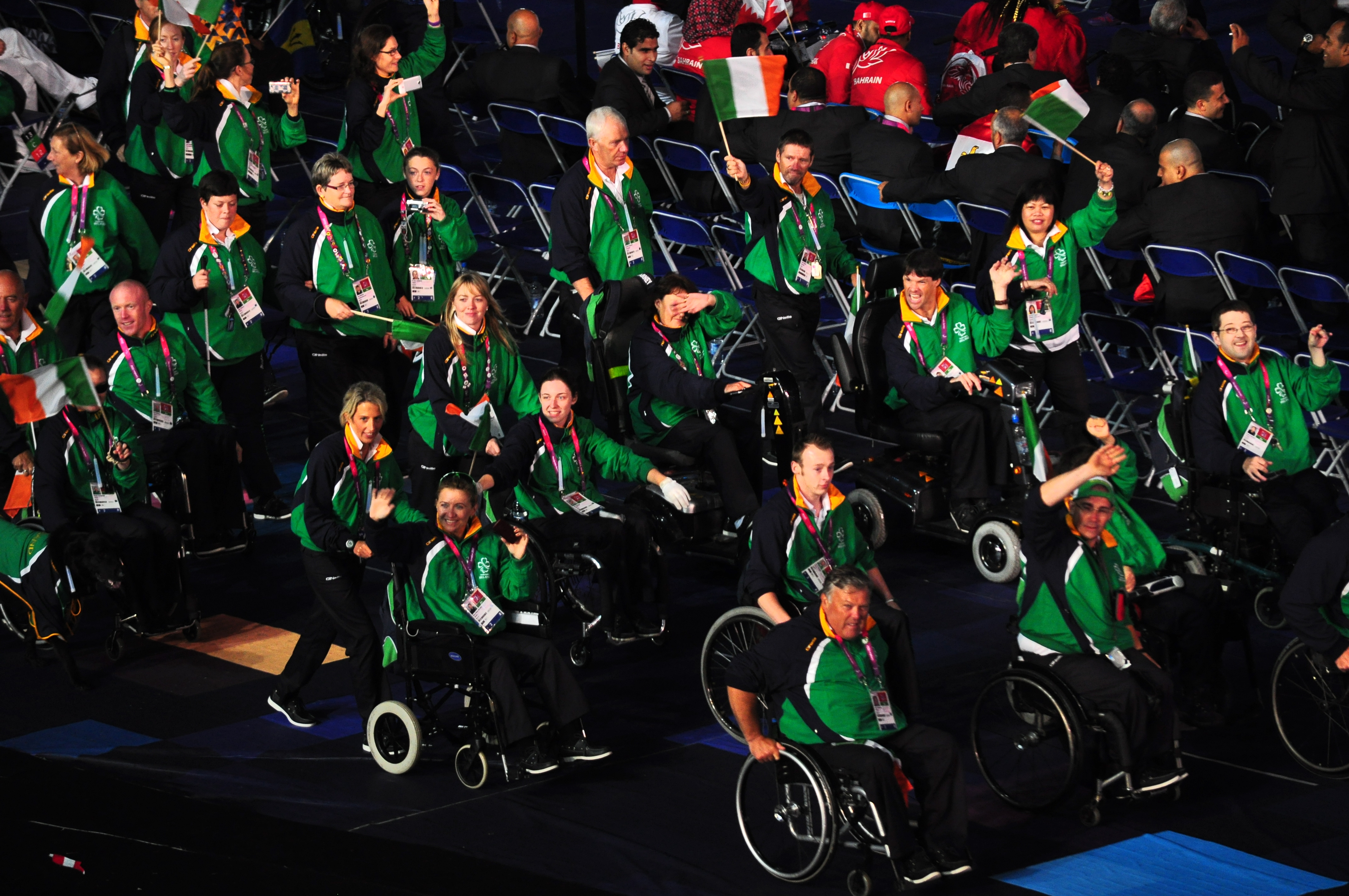 Irish paralympians